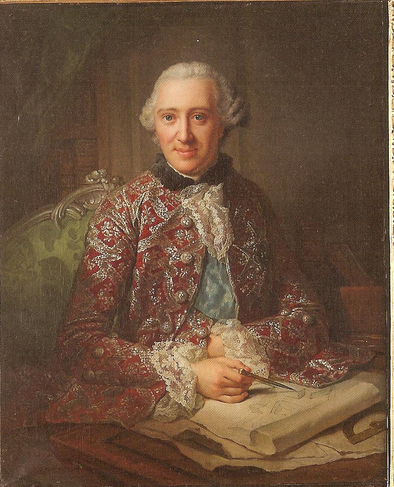 Friedrich Wilhelm Fürst von Hessenstein